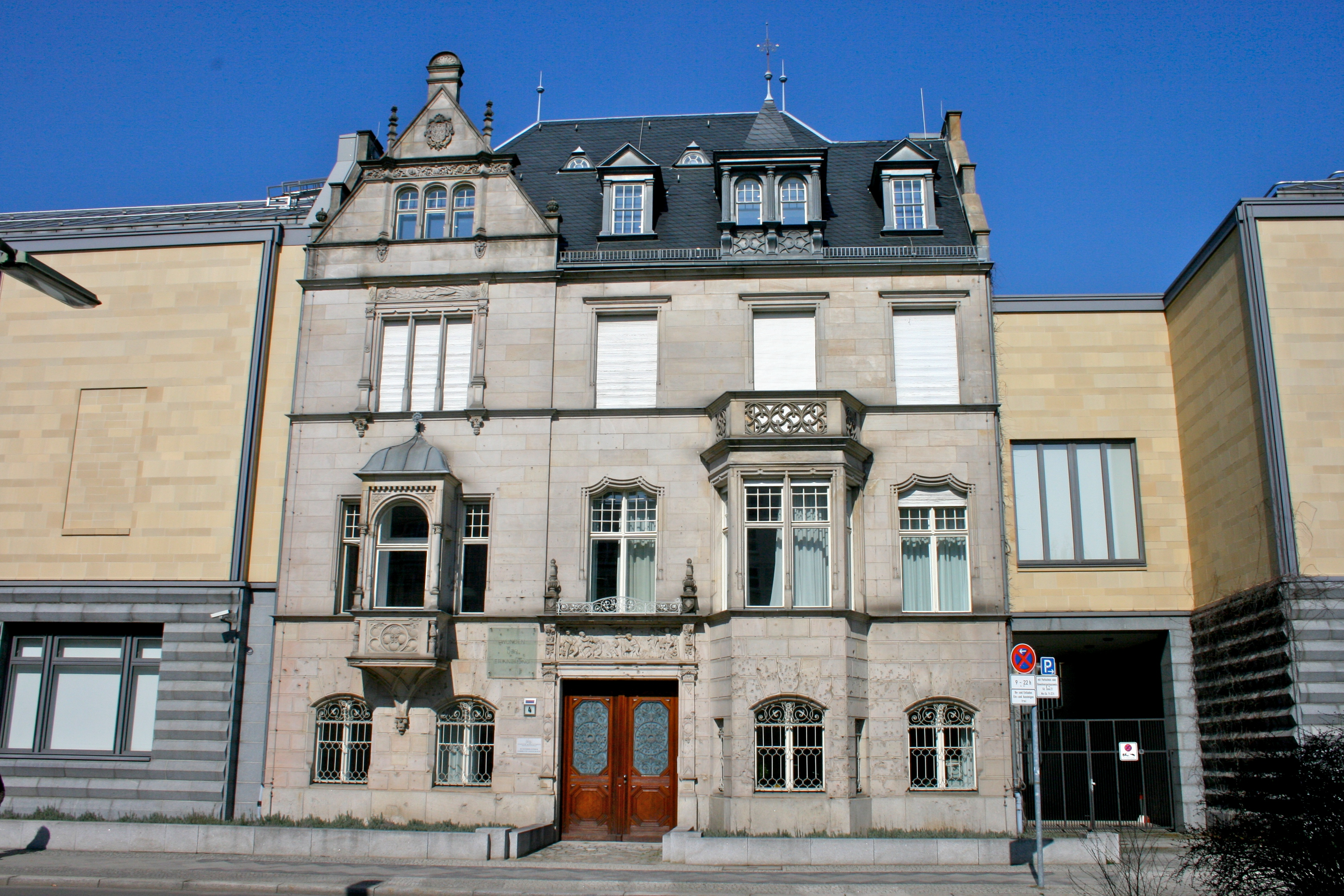 Part of the Berlin Portrait Gallery, south end. Note the scars from gunfire on the lowest floor.